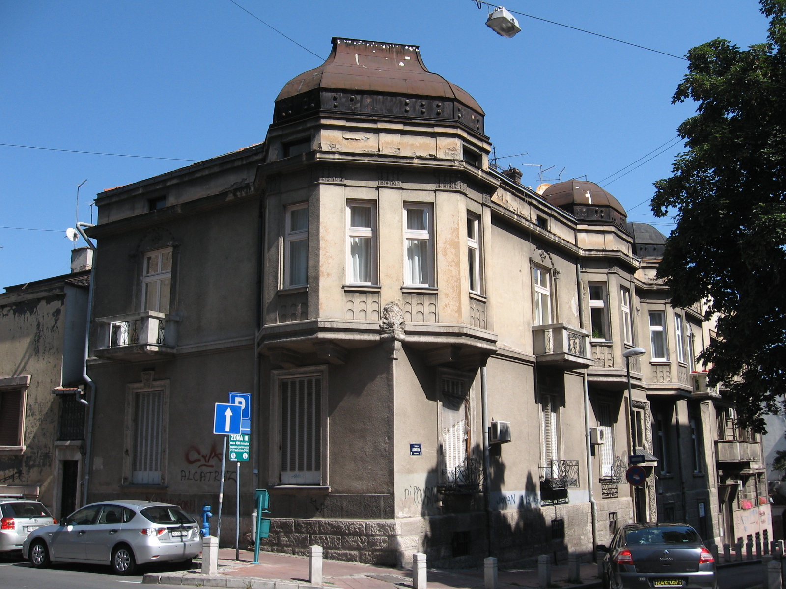 Houses in Dorćol, Belgrade